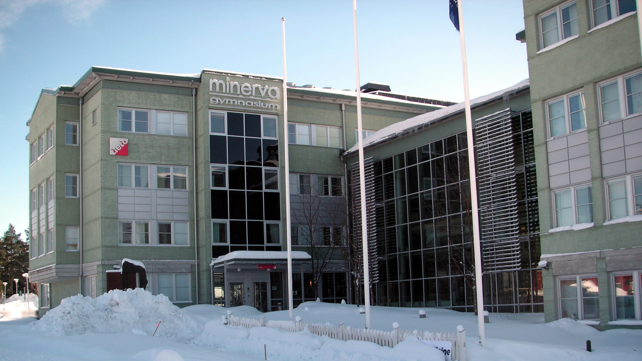 Private school (high school) "Minerva gymnasium" in Umeå, Sweden.